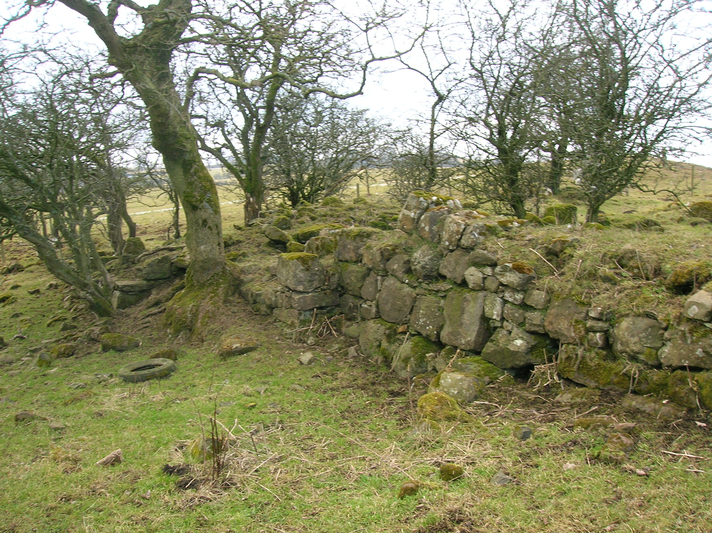 Ruins of Bank of Giffen Farm, Greenacres, near Barrmill, Ayrshire, Scotland